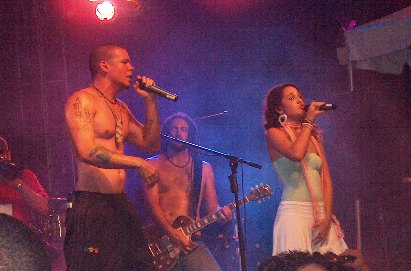 Residente (René Pérez) and PG-13 (Ileana Cabra) from Puerto Rican urban music group Calle 13, performing at the 34th annual Support to Claridad Festival in San Juan, Puerto Rico